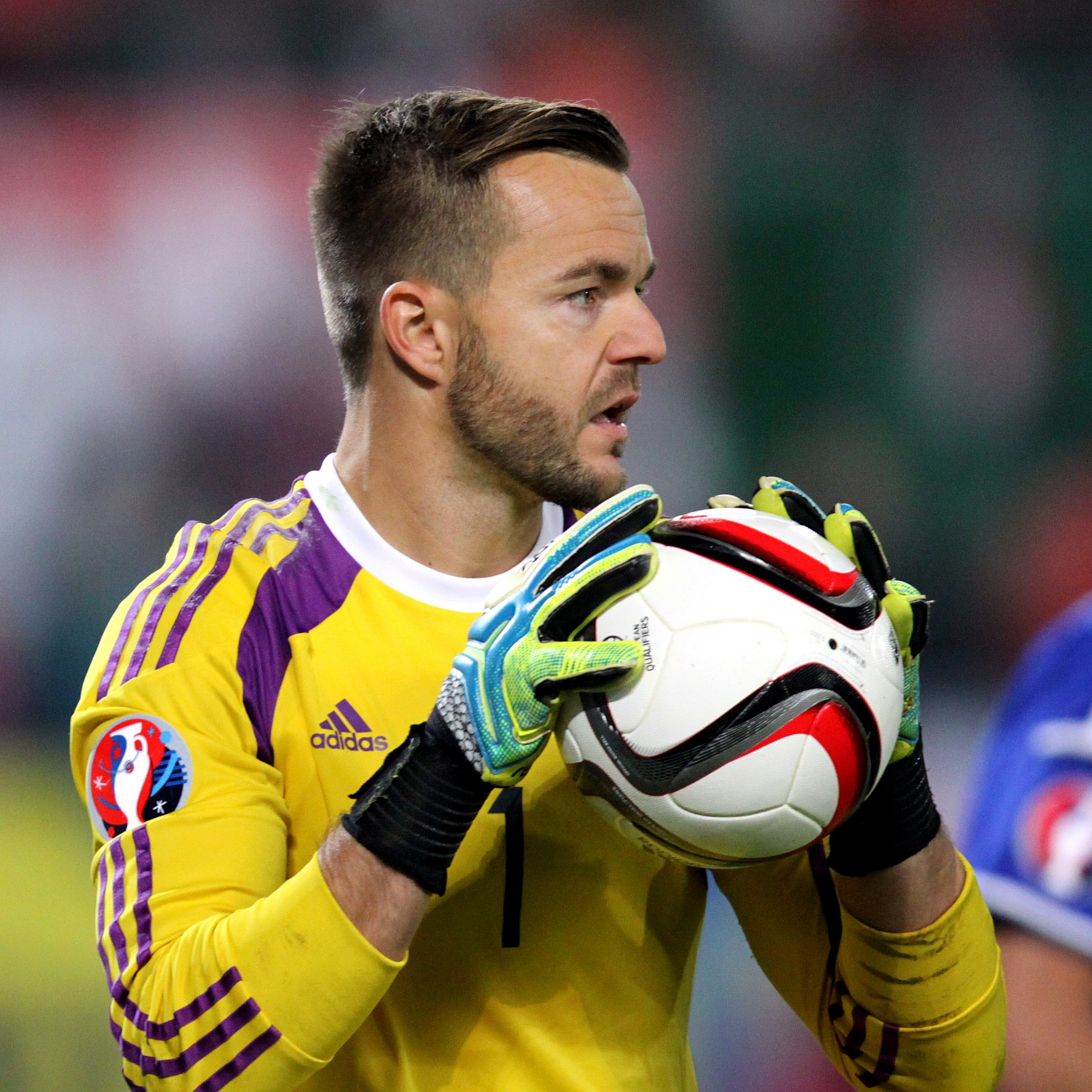 UEFA Euro 2016 qualifying, Group G – Austria (red shirts) vs. Liechtenstein (blue shirts) 3–0 (1–0) on 2015-10-12 in Ernst-Happel-Stadion, Vienna – The photo shows the goalkeeper of Liechtenstein Peter Jehle.